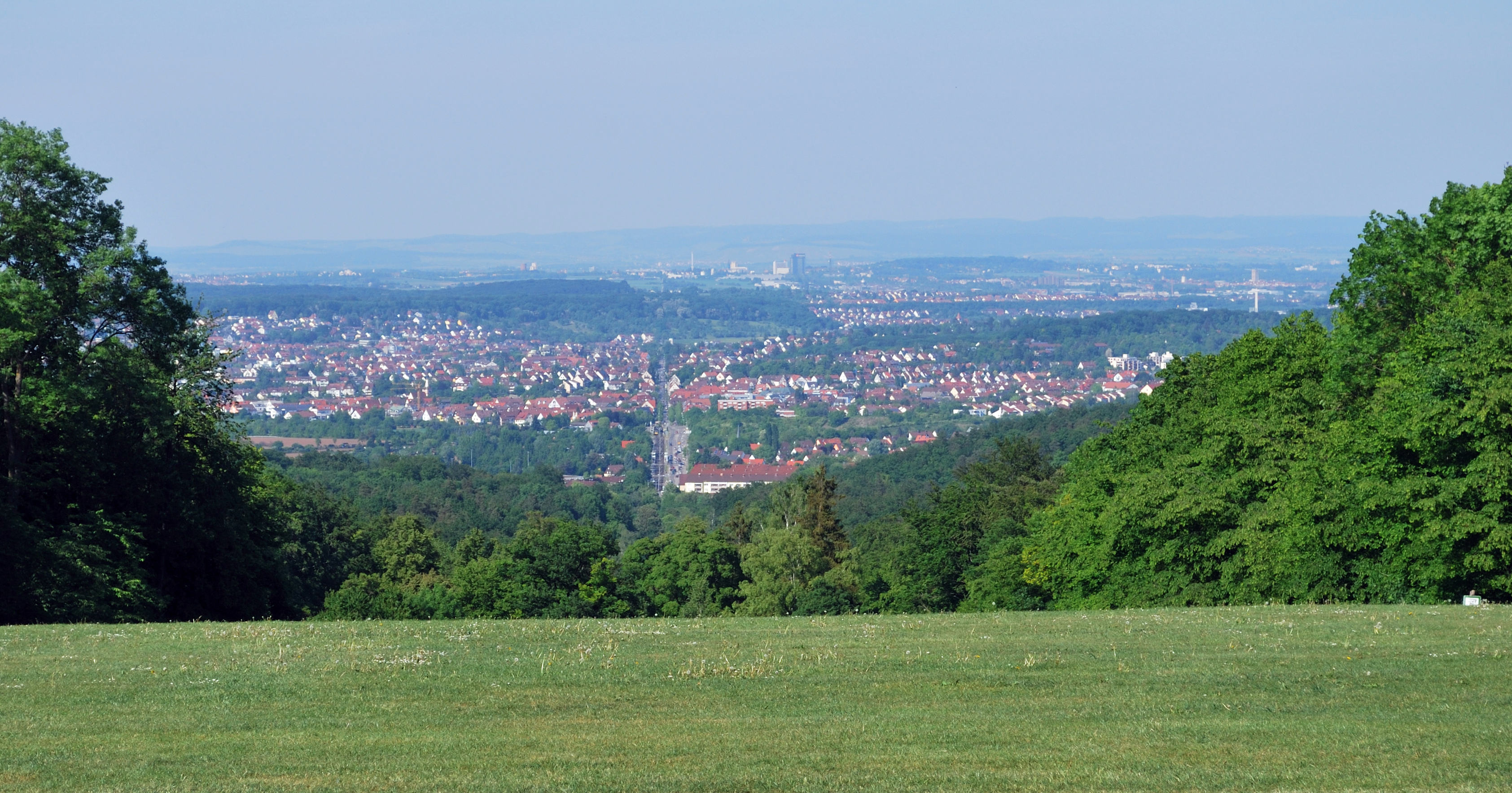 View from the Castle Solitude to the North at the Solitude avenue and at Ludwigsburg.